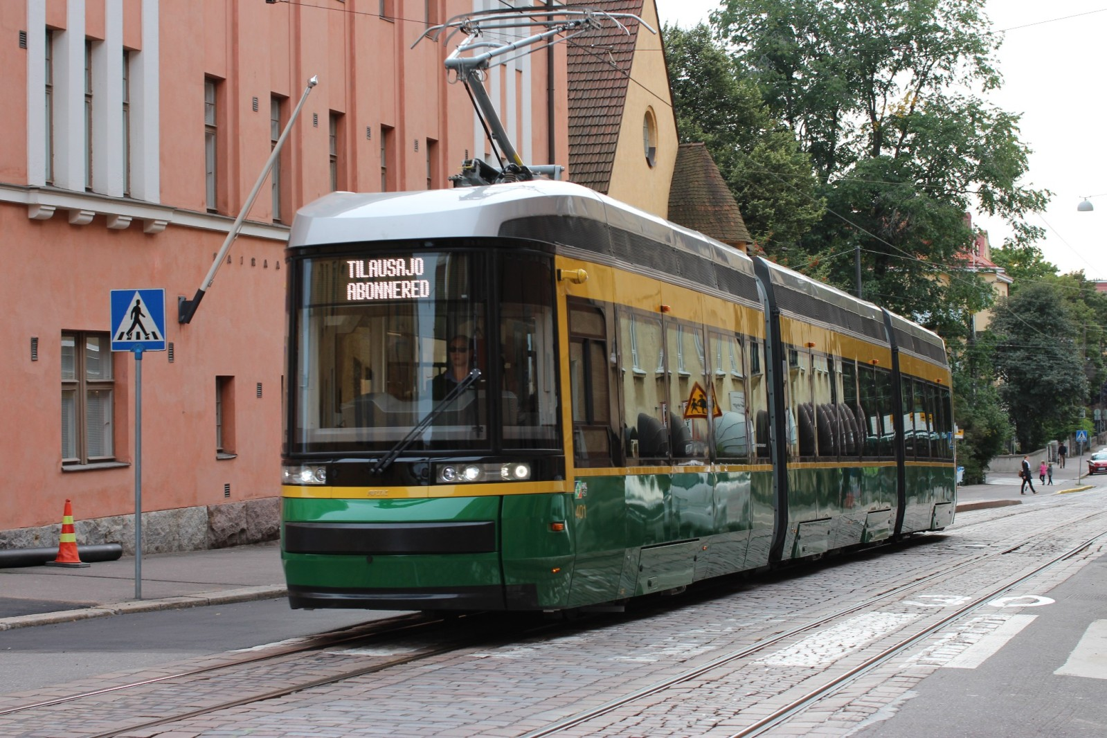 Artic, a tram model of Transtech, in Helsinki.